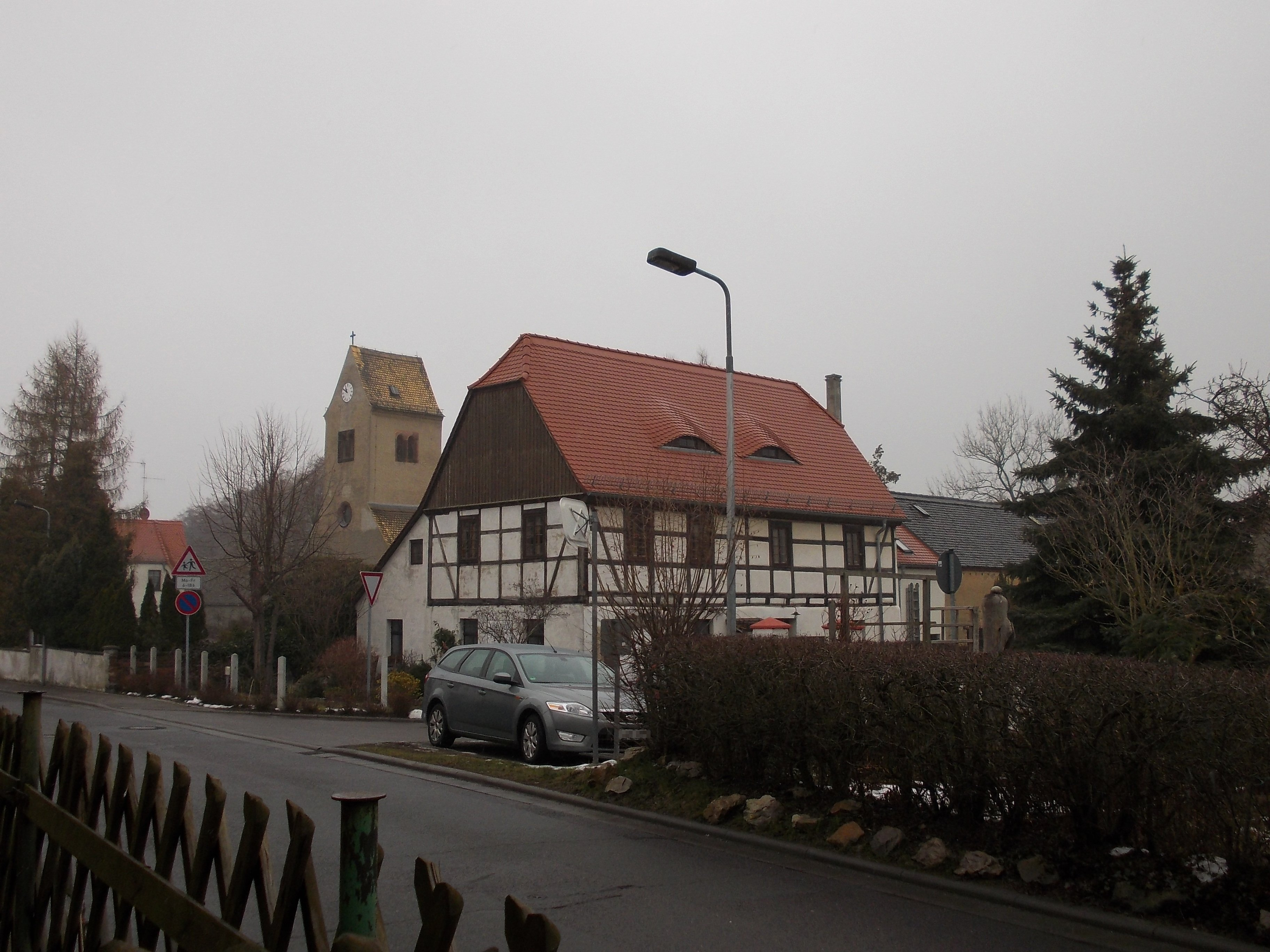 Half-timbered house and church in Altenbach (Bennewitz, Leipzig district, Saxony)